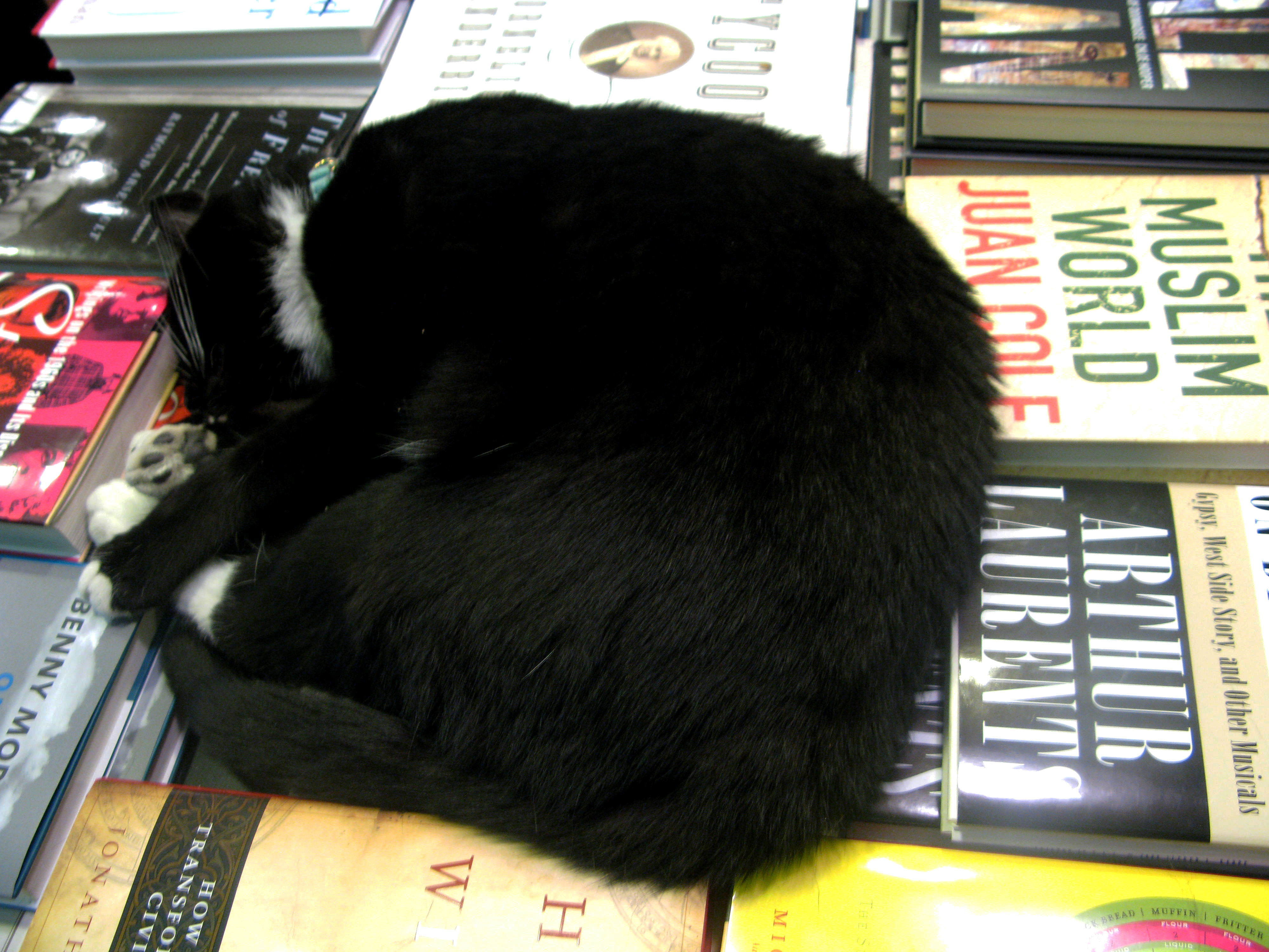 Taken at in Park Slope Community Bookstore, Brooklyn